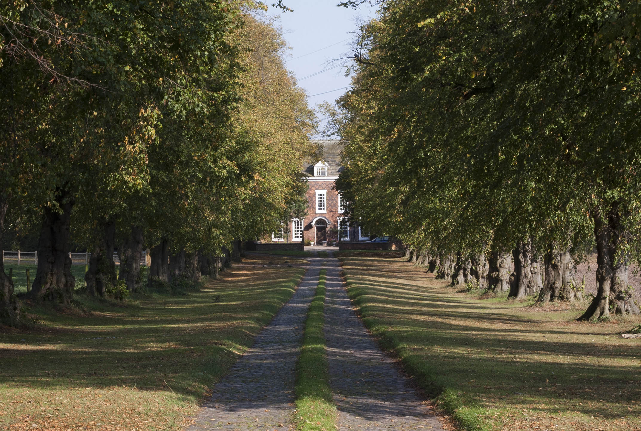 Aston Park, shot from the roadside.